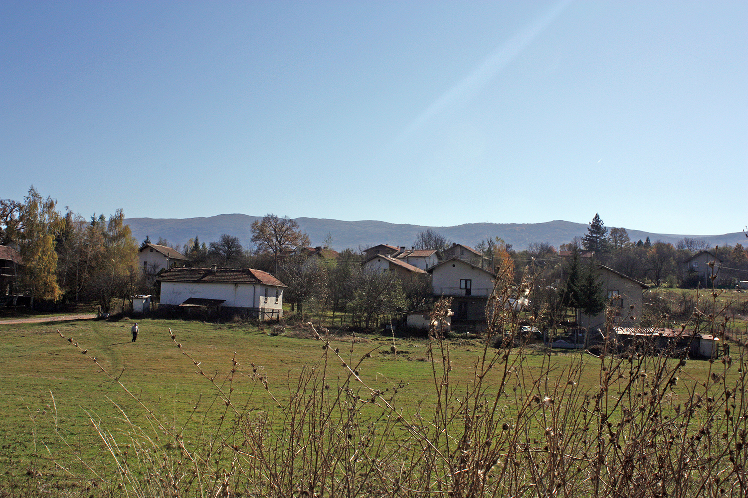 Kalenovtsi central parts